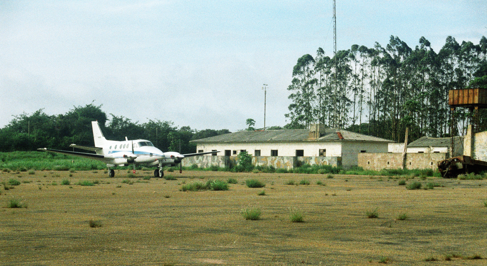 The ex-airforce base and airport terminal area in Mueda circa 1995.